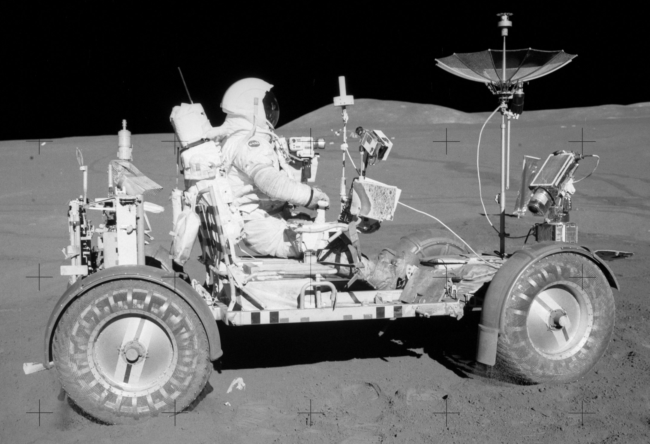 Apollo 15 Lunar Rover, NASA photo AS15-85-11471